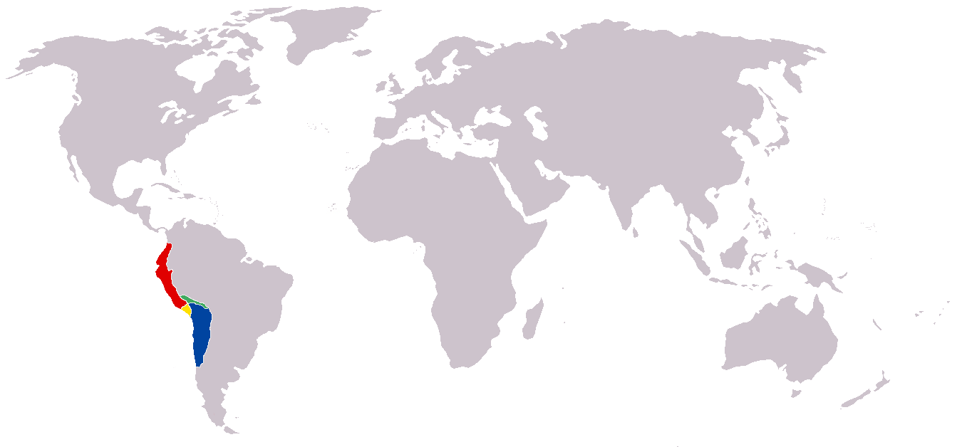 Location_Tawantin_Suyu3.png mirian olga ernesta